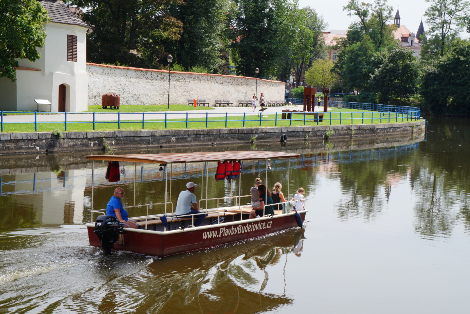 Touristic boat in České Budějovice, Czech Republic.